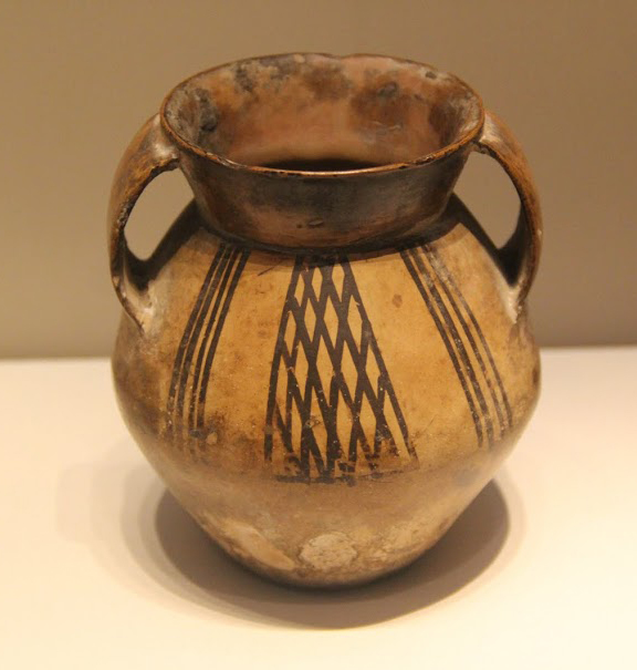 Pottery jar, Qijia culture (2400 - 1900), Gansu. National Museum of China, Beijing